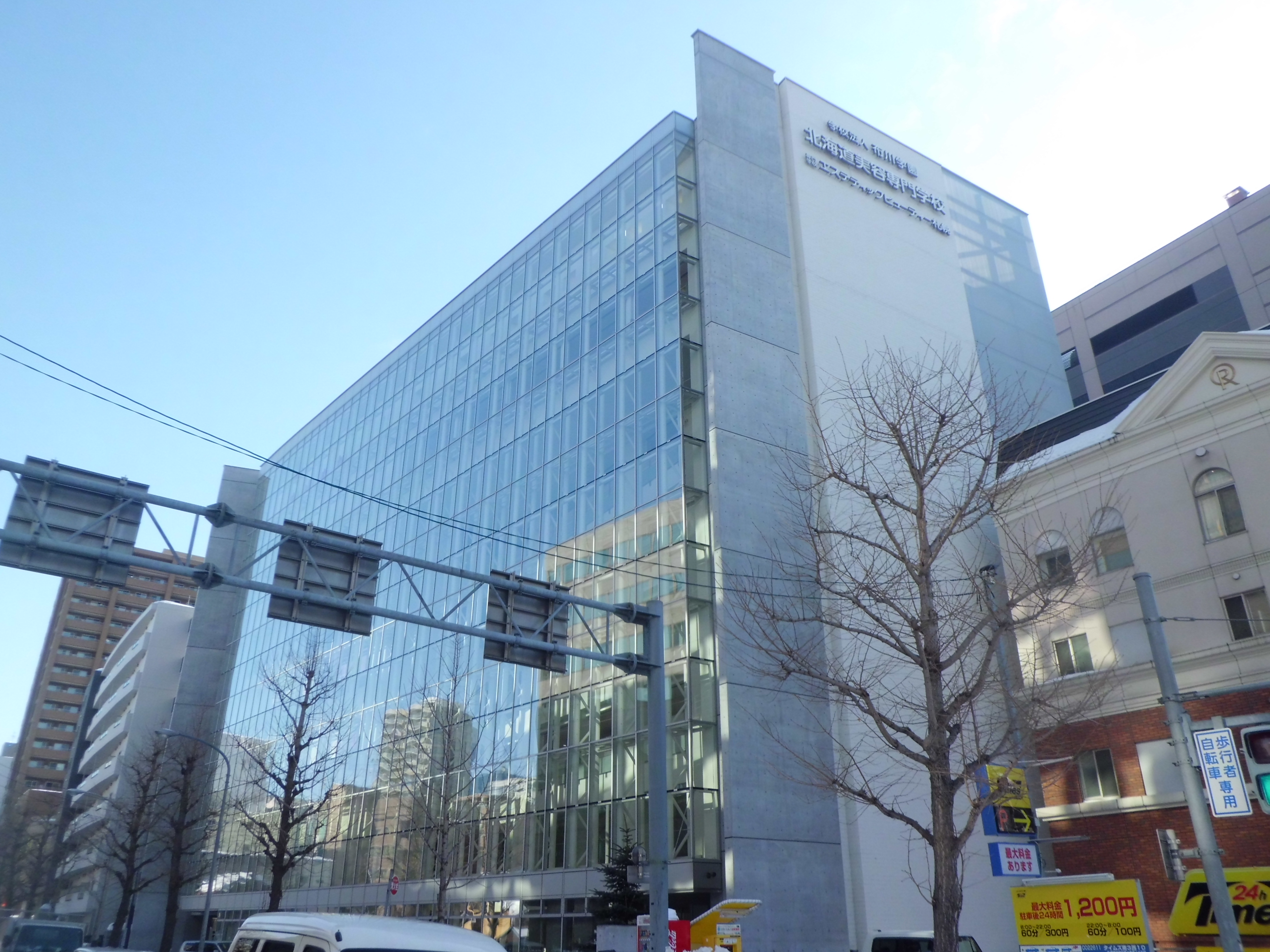 Hokkaido Beauty School and Esthetic Beauty Sapporo